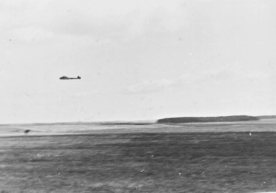 DO 17, winter 1941, Sowjetunion